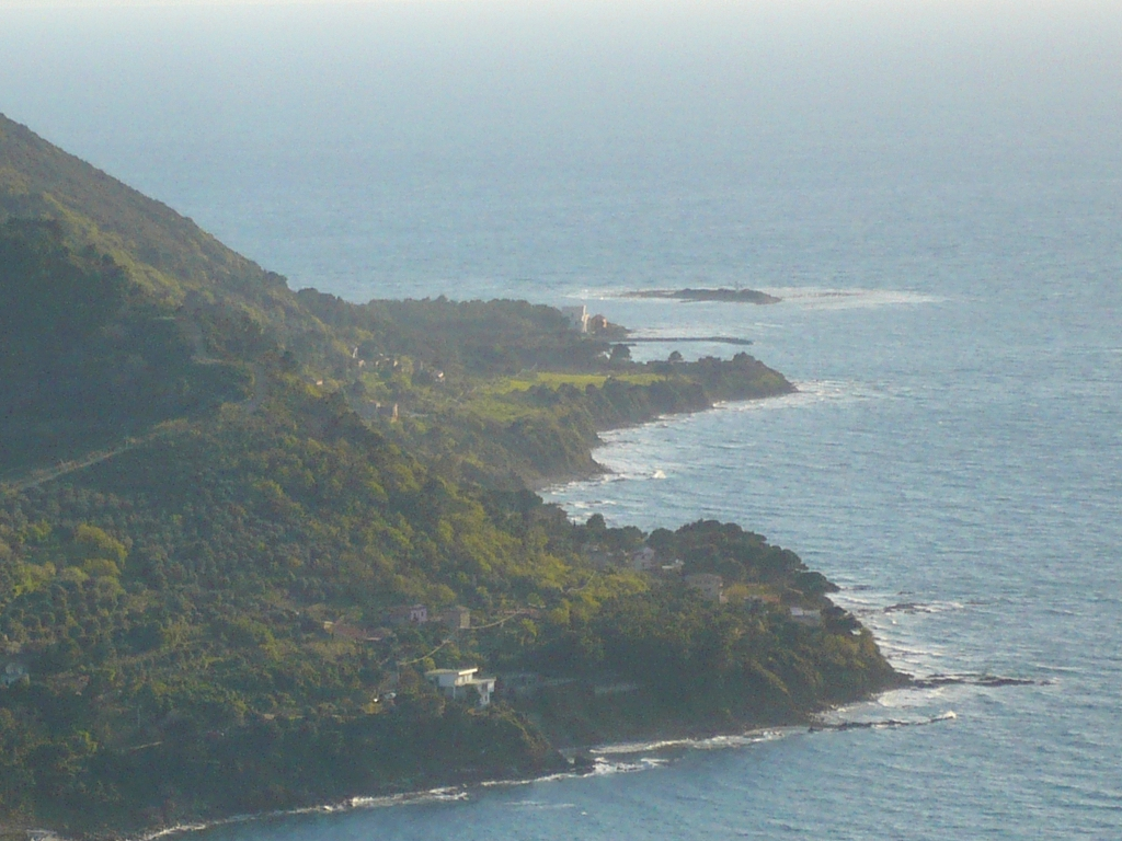 Vista di Licosa frazione di Castellabate